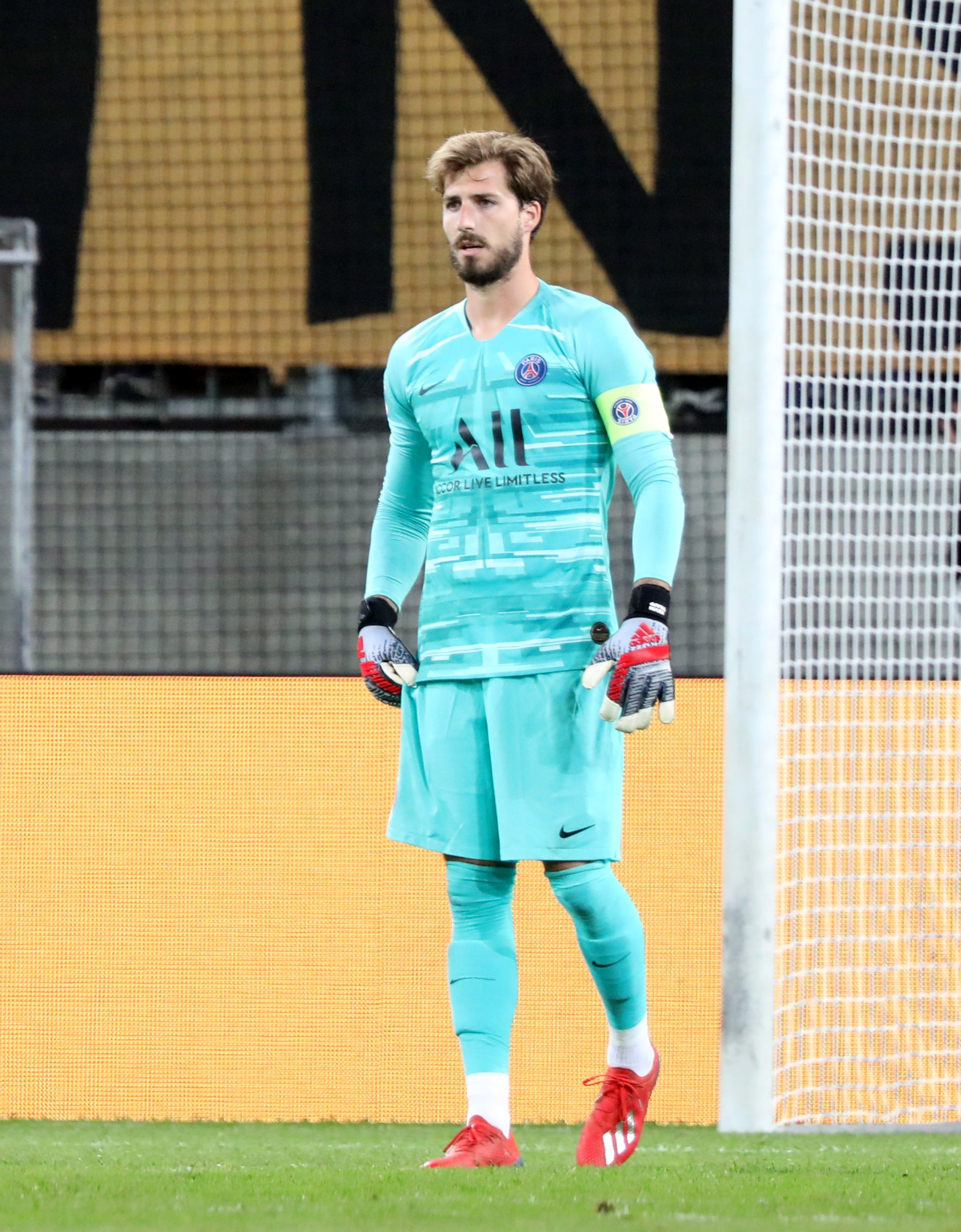 Test game, 17th July 2019: SG Dynamo Dresden vs. Paris Saint-Germain 1:6 (0:3)